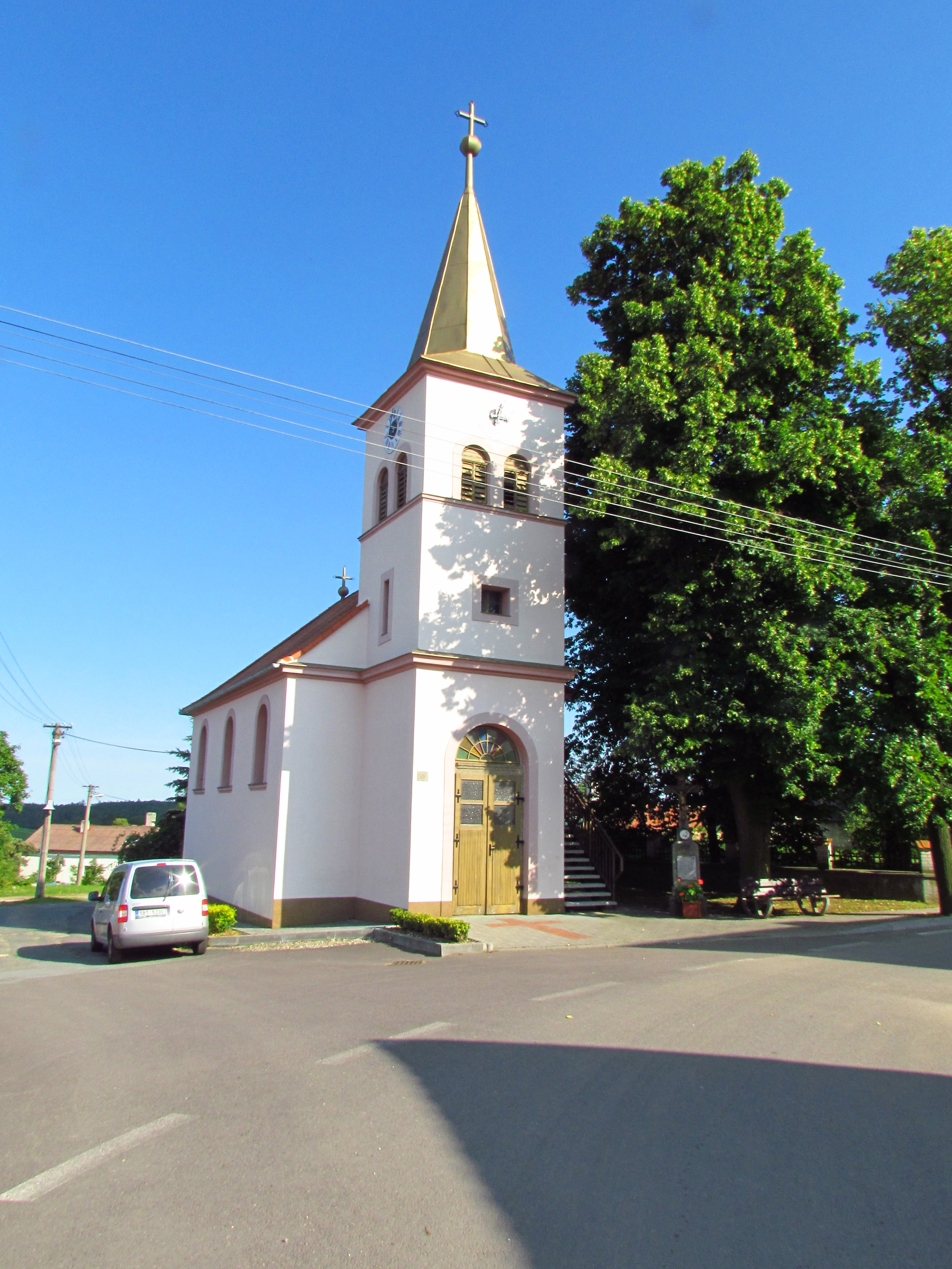 Overview of Church of Saint Peter and Paul in Přešovice, Třebíč District.